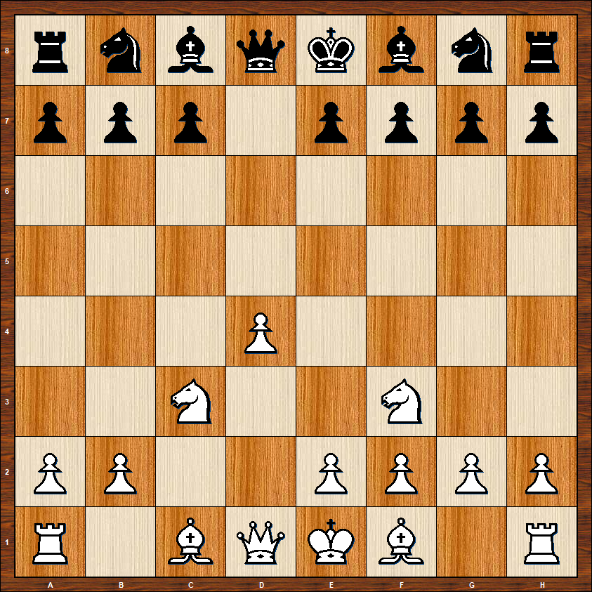 Position efter 4.Sxc3